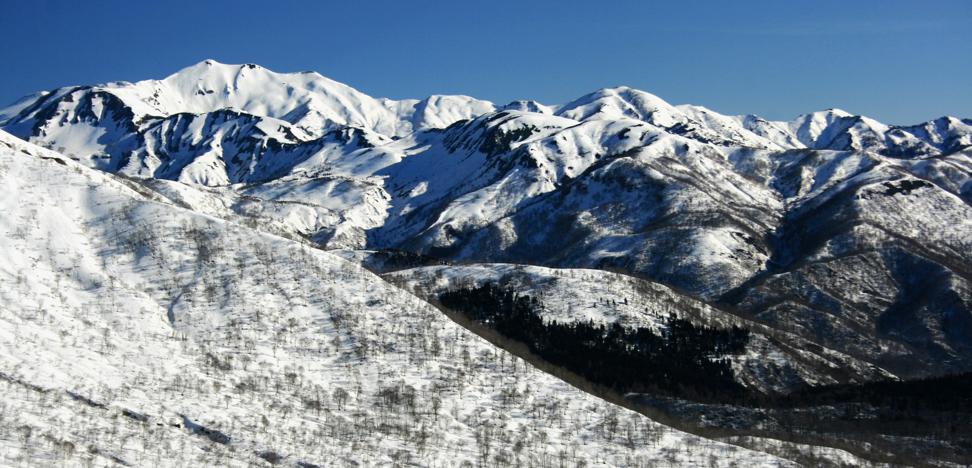 Bessan from Mount Nobuse in Ryōhaku Mountains, Japan.